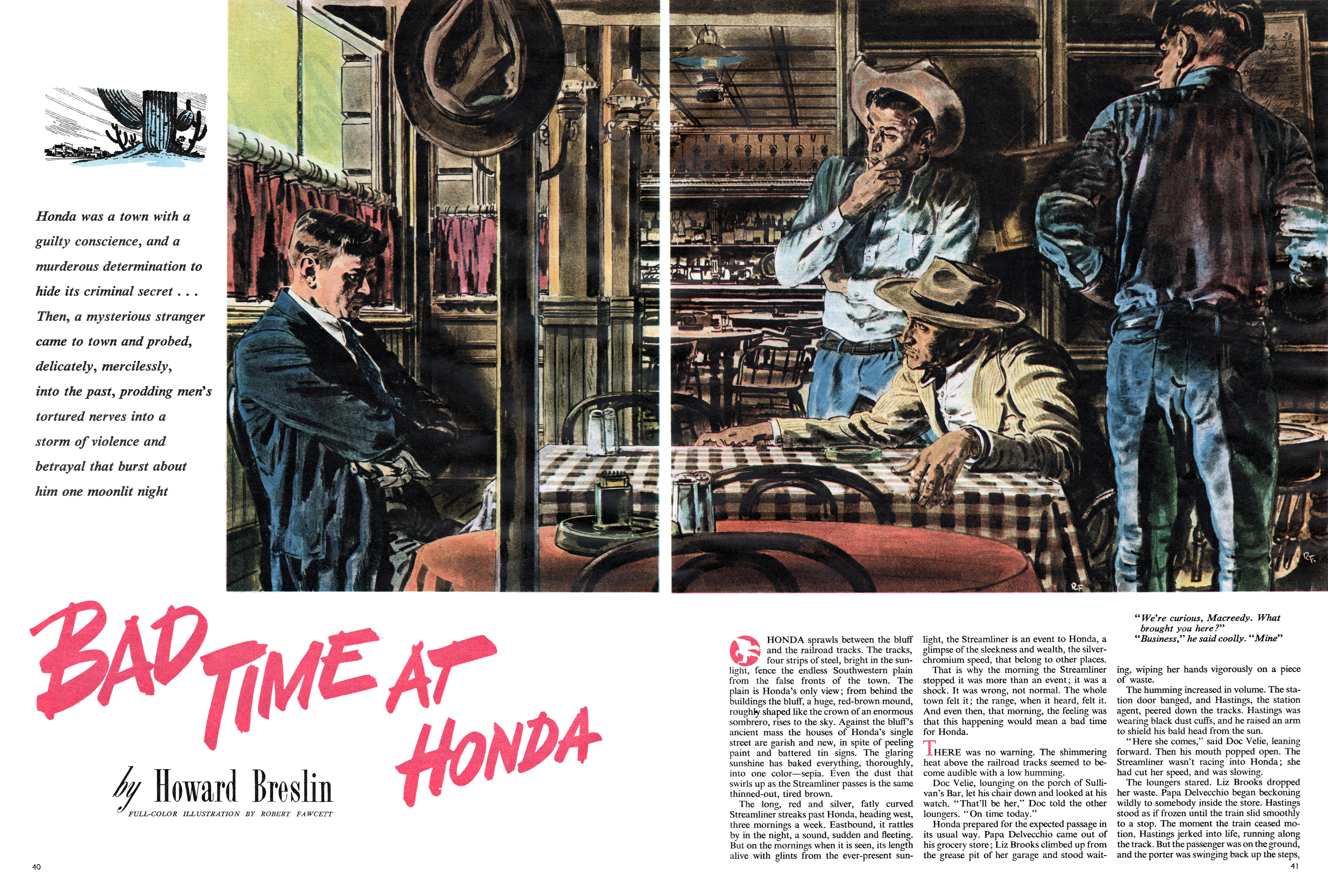 Lead illustration from The American Magazine printing of "Bad Time at Honda", a story by Howard Breslin that was later adapted for the film Bad Day at Black Rock